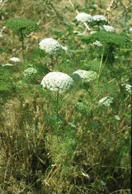 Sicilian botanical endemisms Ammi crinitum